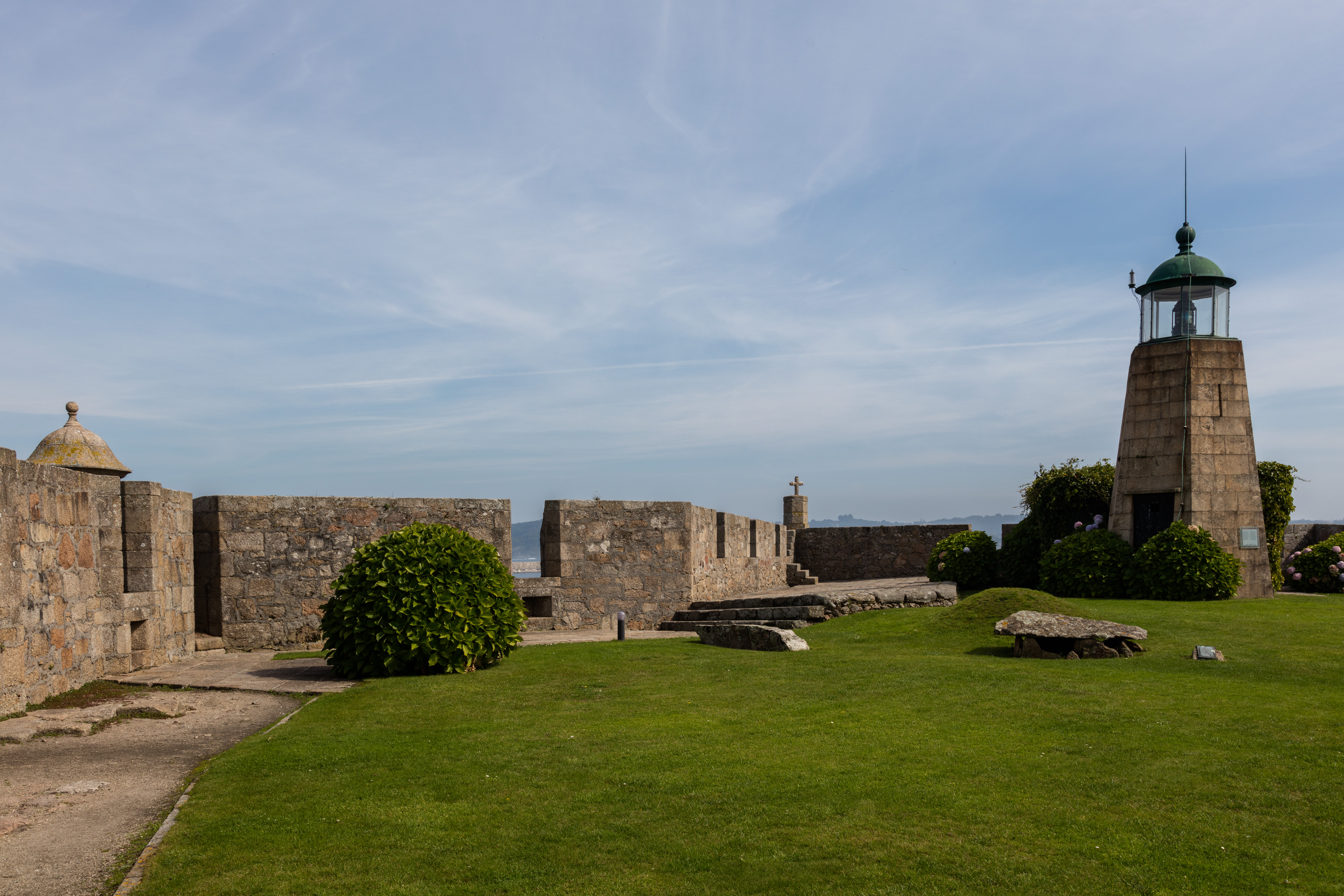 San Antón Castle, La Coruña, Spain